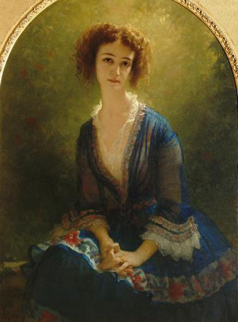 Comtesse Eugène Pastré (1825-1900), born Céline de Beaulaincourte de Marles, by Ernest Hébert (1817-1908)